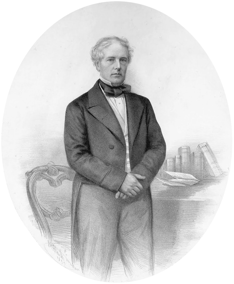 Sir Dominic John Corrigan, 1st Baronet (2 December 1802 – 1 February 1880)